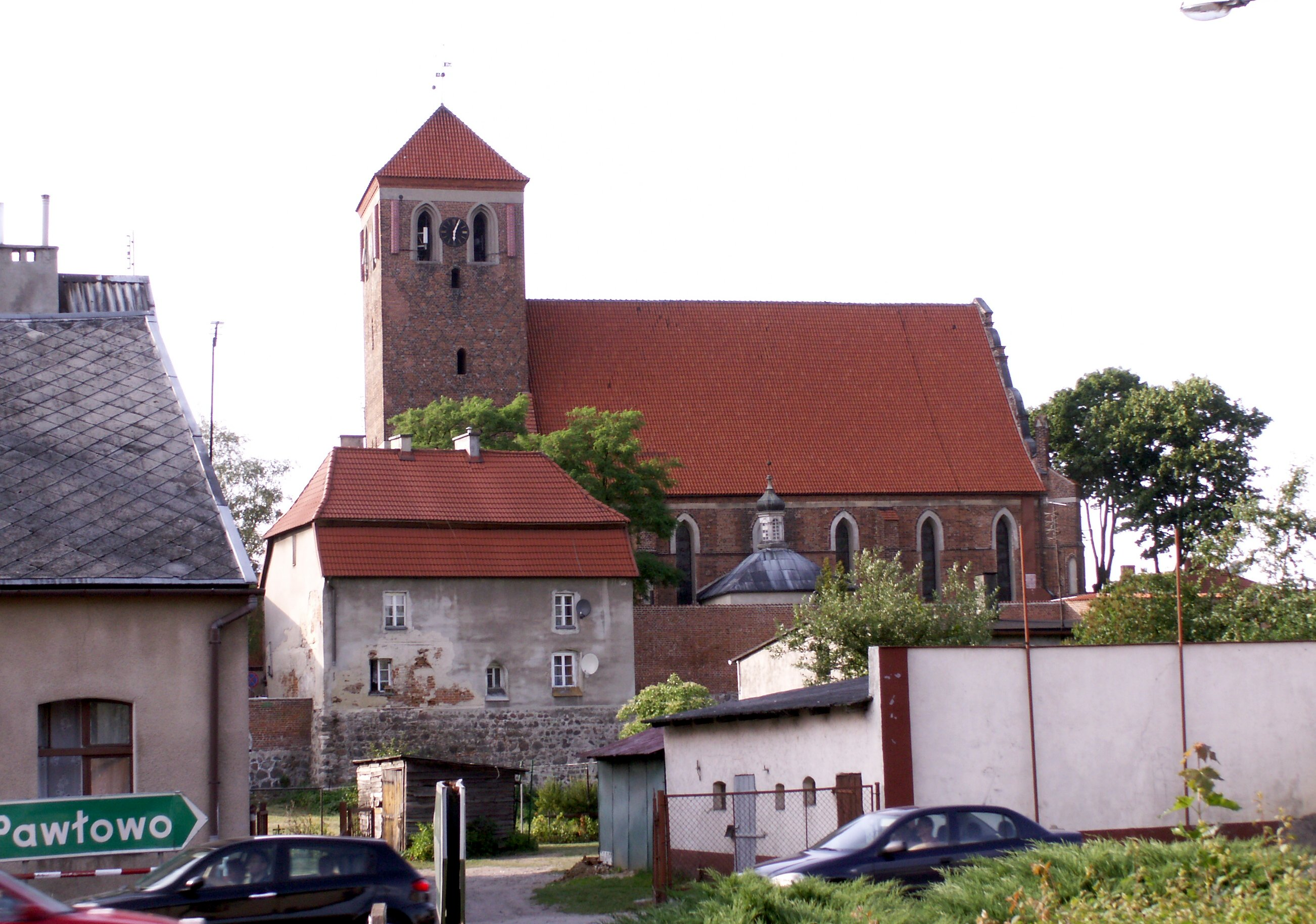 Lubawa, Poland